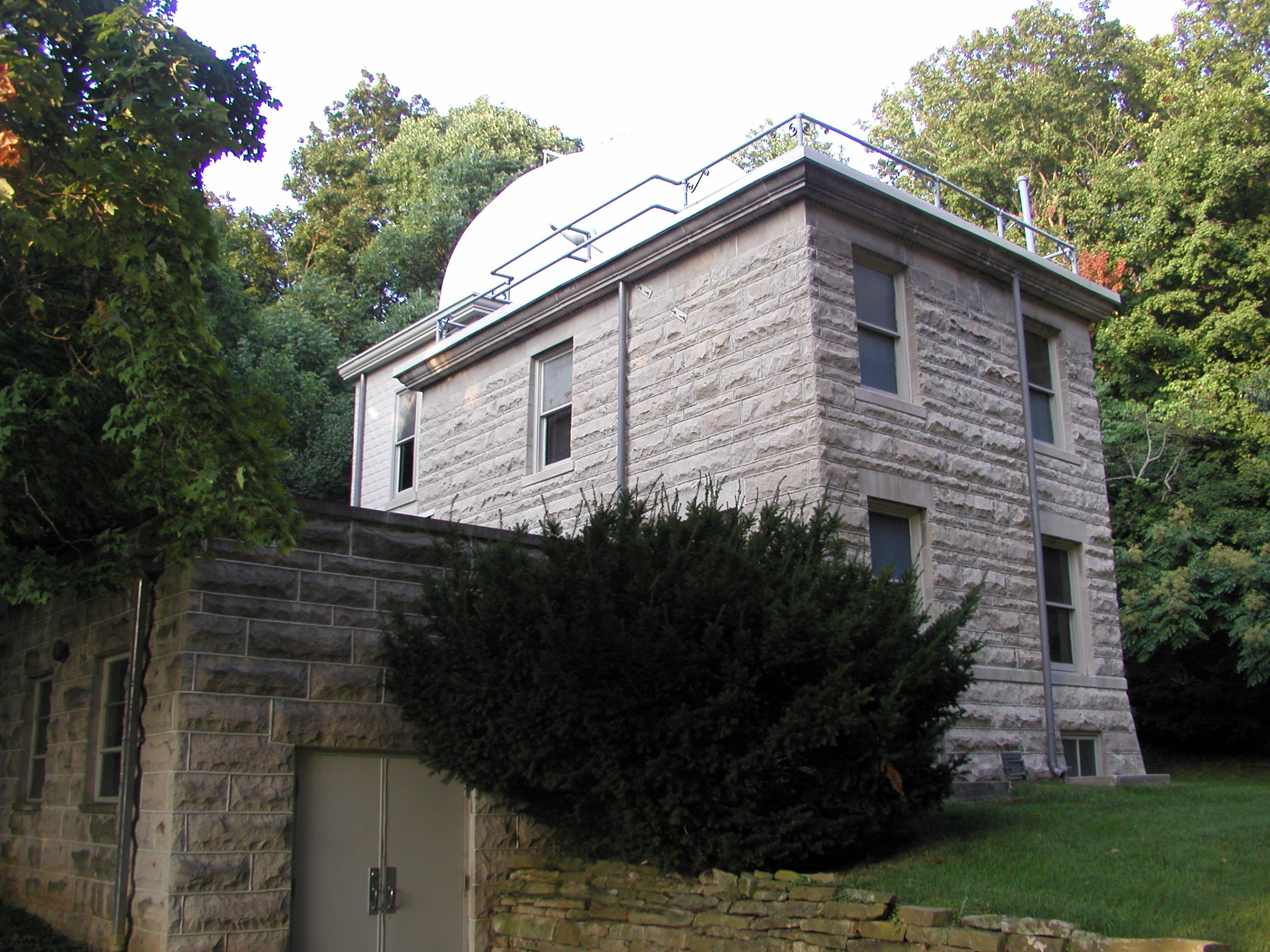 Kirkwood Observatory on the campus of Indiana University Bloomington. Photo taken August, 2006 by User:Durin